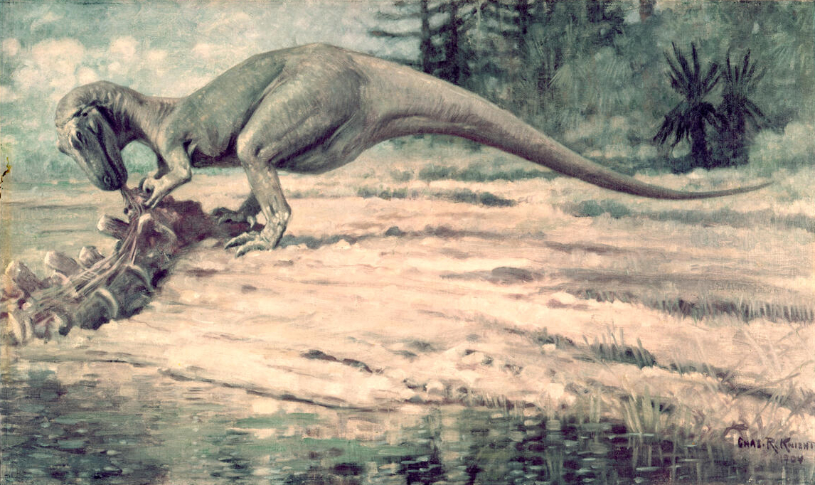 Allosaurus preying on Apatosaurus, at the AMNH